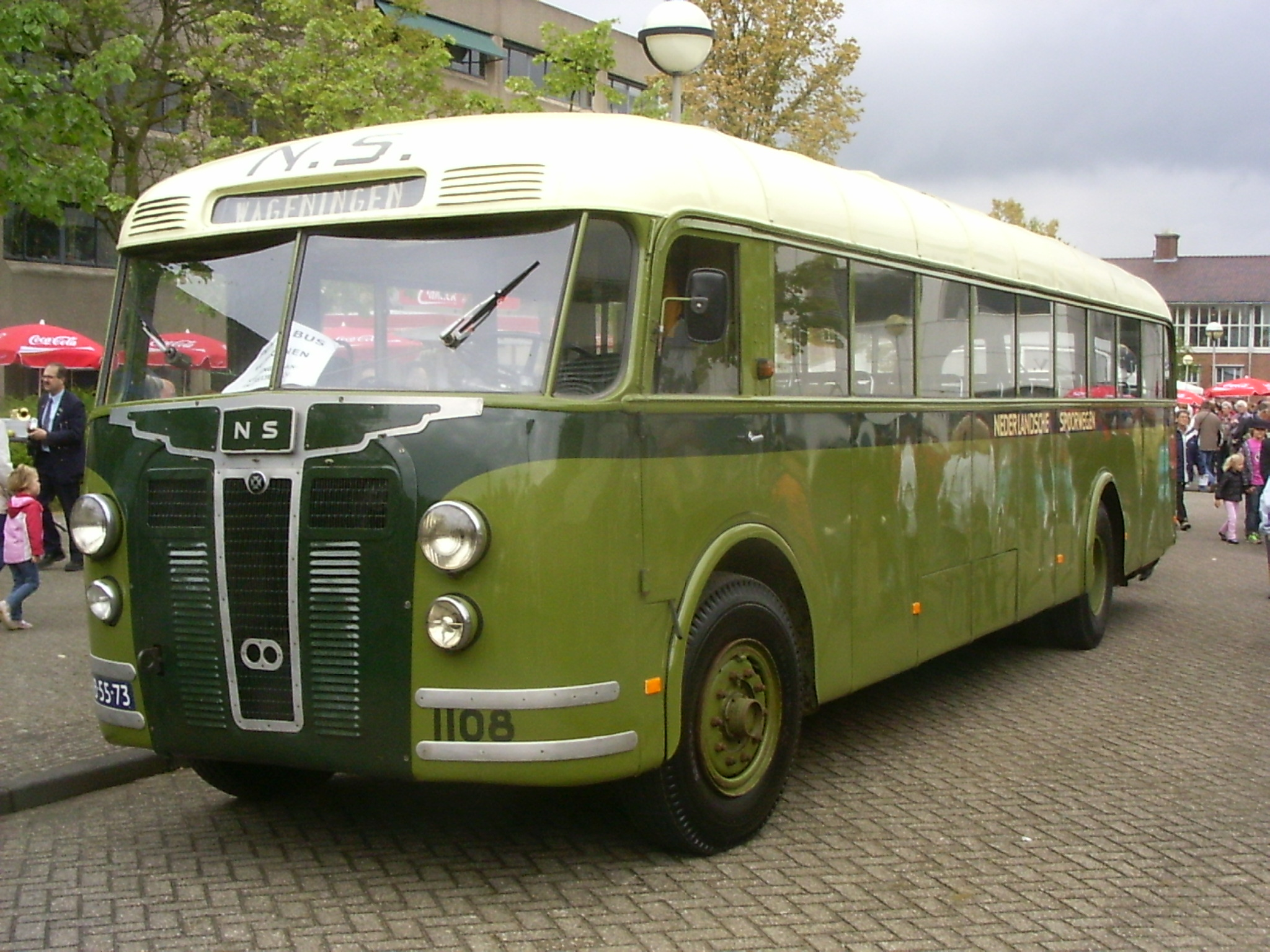 Dutch Crossley bus owned by the Stichting Veteraan Autobussen